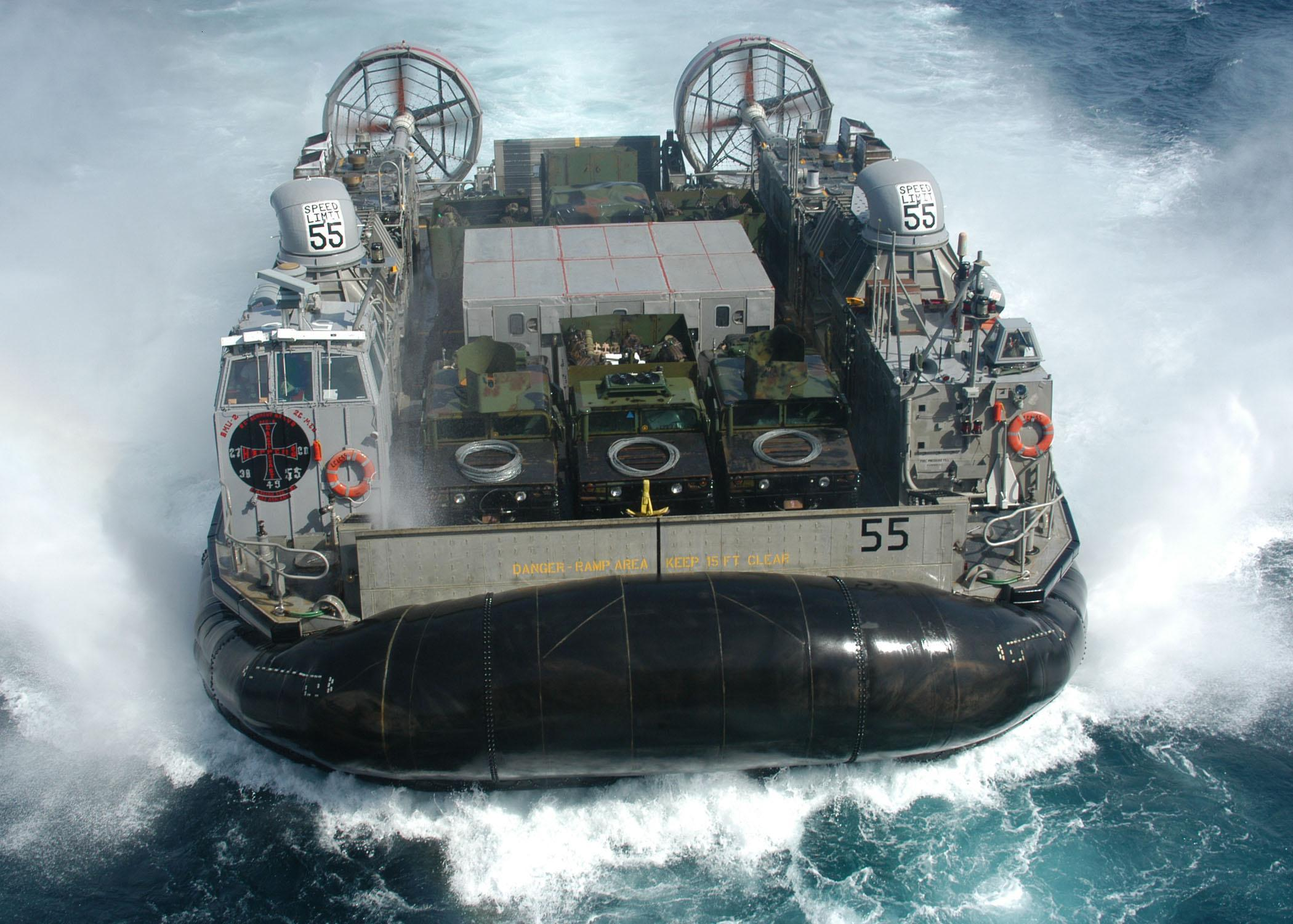 LCAC-55, a Navy Landing Craft Air Cushion (LCAC), maneuvers to enter the well deck of the amphibious assault ship USS Kearsarge (LHD-3). Kearsarge and the embarked 26th Marine Expeditionary Unit (Special Operations Capable) are conducting Maritime Security Operations in the Persian Gulf. The Landing Craft Air Cushion, more commonly known as an LCAC, is assigned to Assault Craft Unit 4 from Naval Amphibious Base Little Creek in Norfolk, Va.